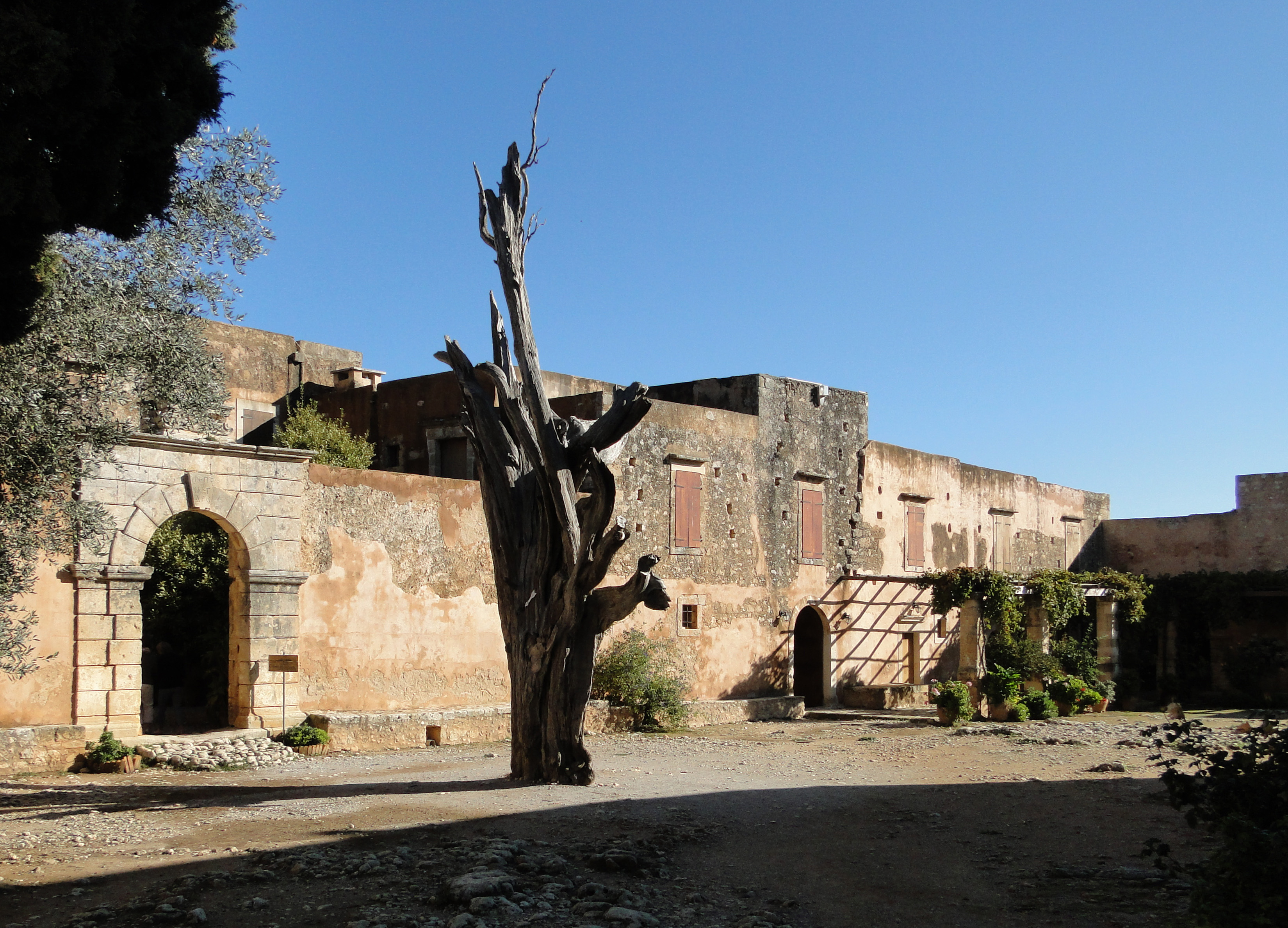 The entrance (at left) to the courtyard of the refectory of the Arkadi Monastery, Crete, Greece